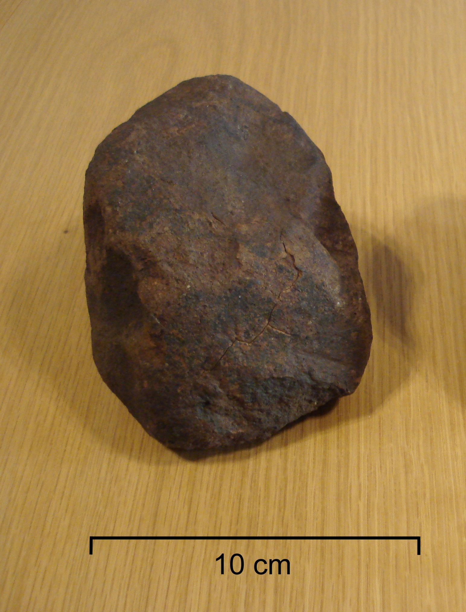 Rough piece of the meteorite Machtenstein, Bavaria (1422 g) with 10 cm ruler.